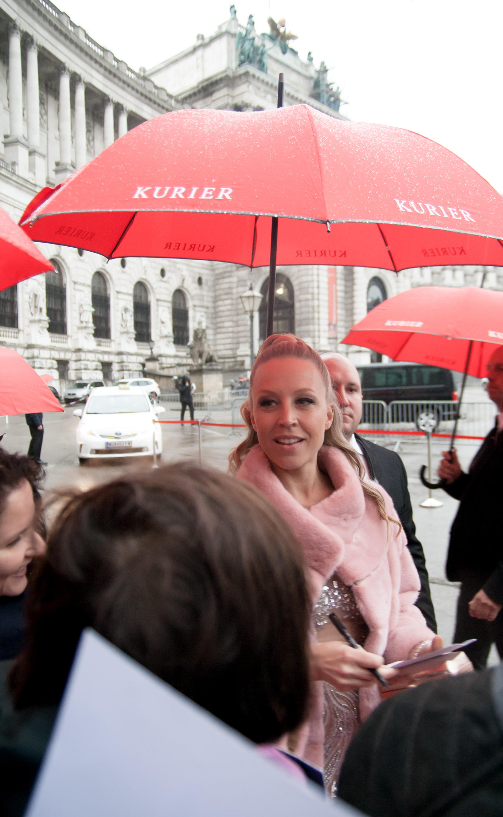 The arrival of Nina Proll on the red carpet of the Romy TV awards 2017 at Hofburg Palace in Vienna, Austria, which was also filmed for her movie Anna Fucking Molnar.